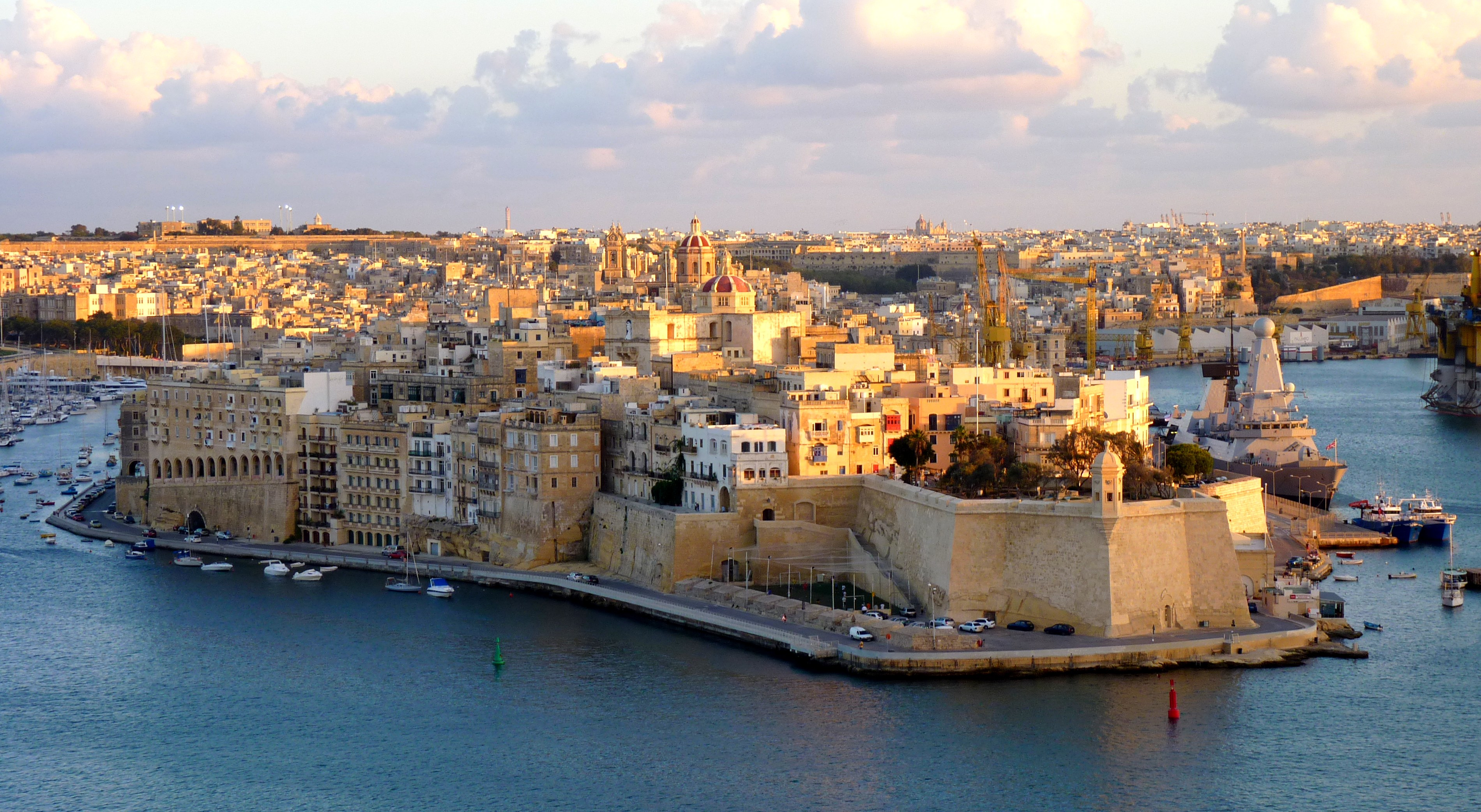 Senglea, the Spur (NOT Fort St. Michael), on Malta